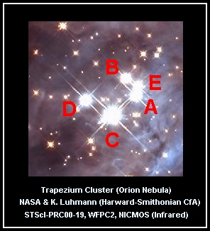 From a HST Image ( I cut the center section of the NICMOS/infrared image with the Trapezium stars, made a new image from it, and named the stars.